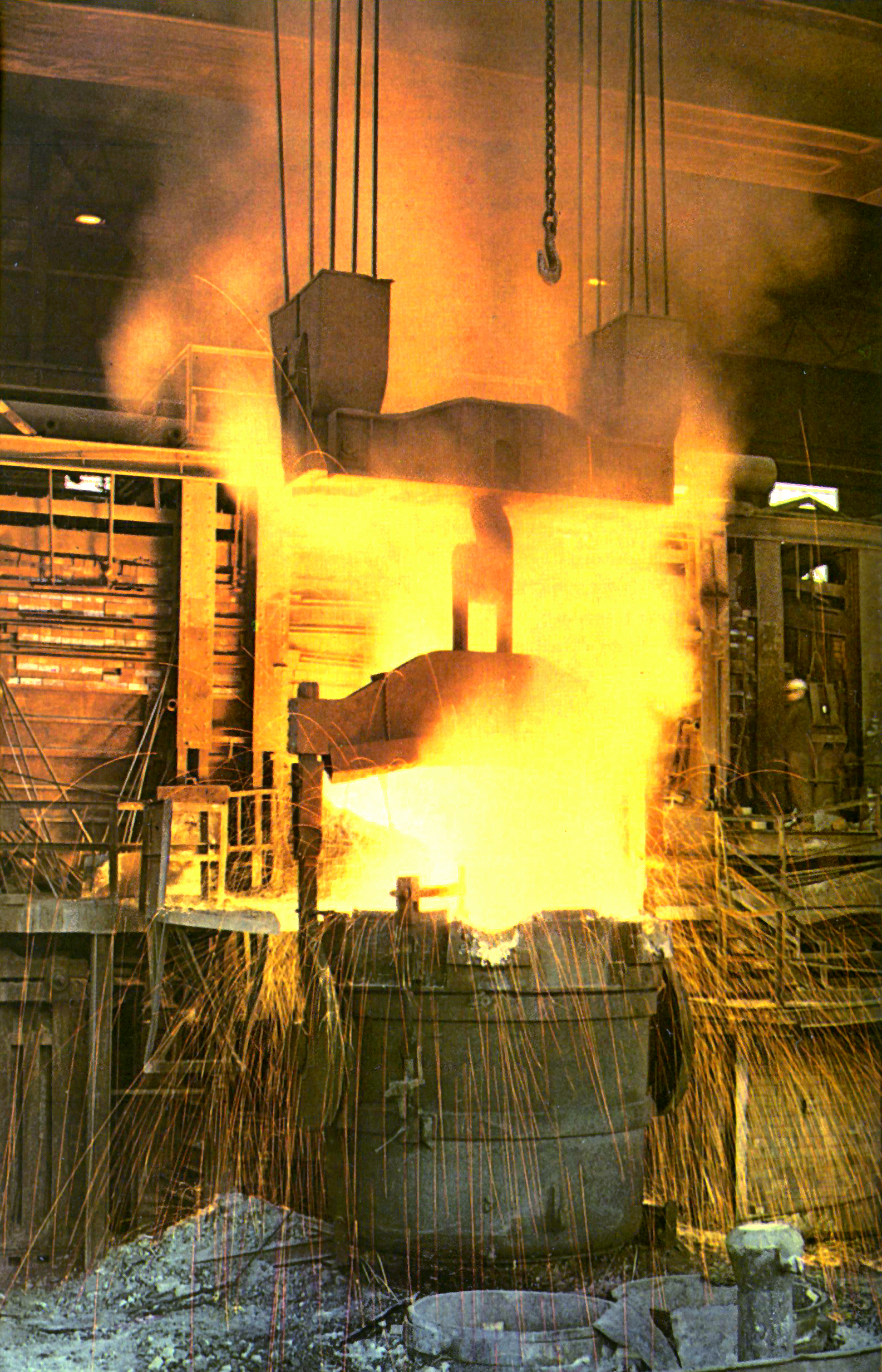 Drawing off of a Siemens regenerative furnace in Fagersta ironworks.